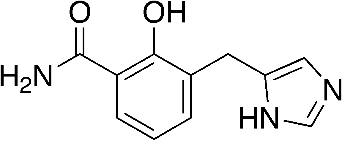 chemical structure of Mivazerol